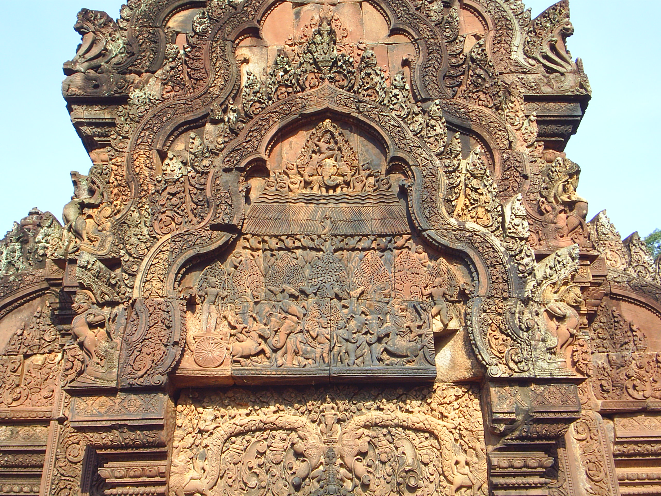 This pediment shows the burning of Khāṇḍava Forest.